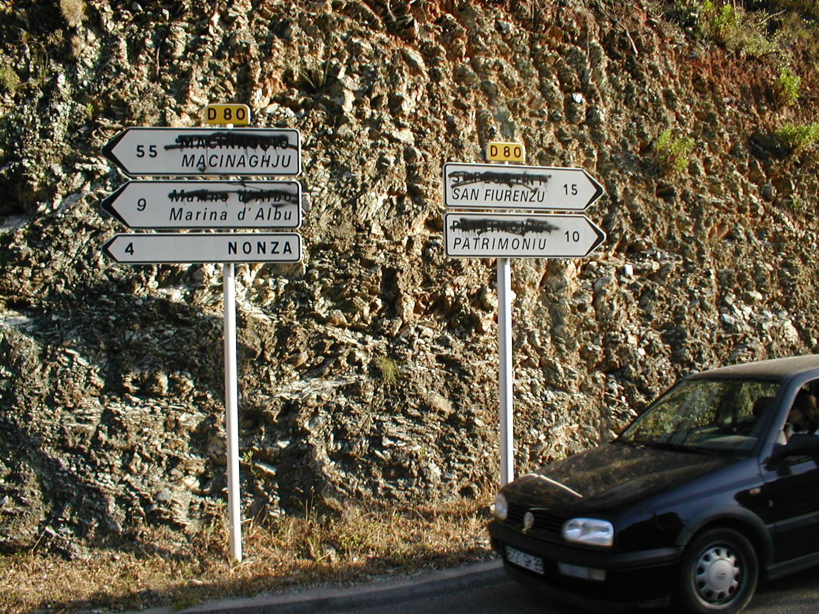 Nationalists on Corsica sometimes spray-paint or shoot traffic signs in French. This map may be incomplete, and may contain errors. Don't rely solely on it for navigation.